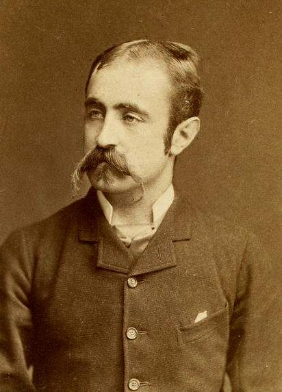 Herman ten Kate's portrait.